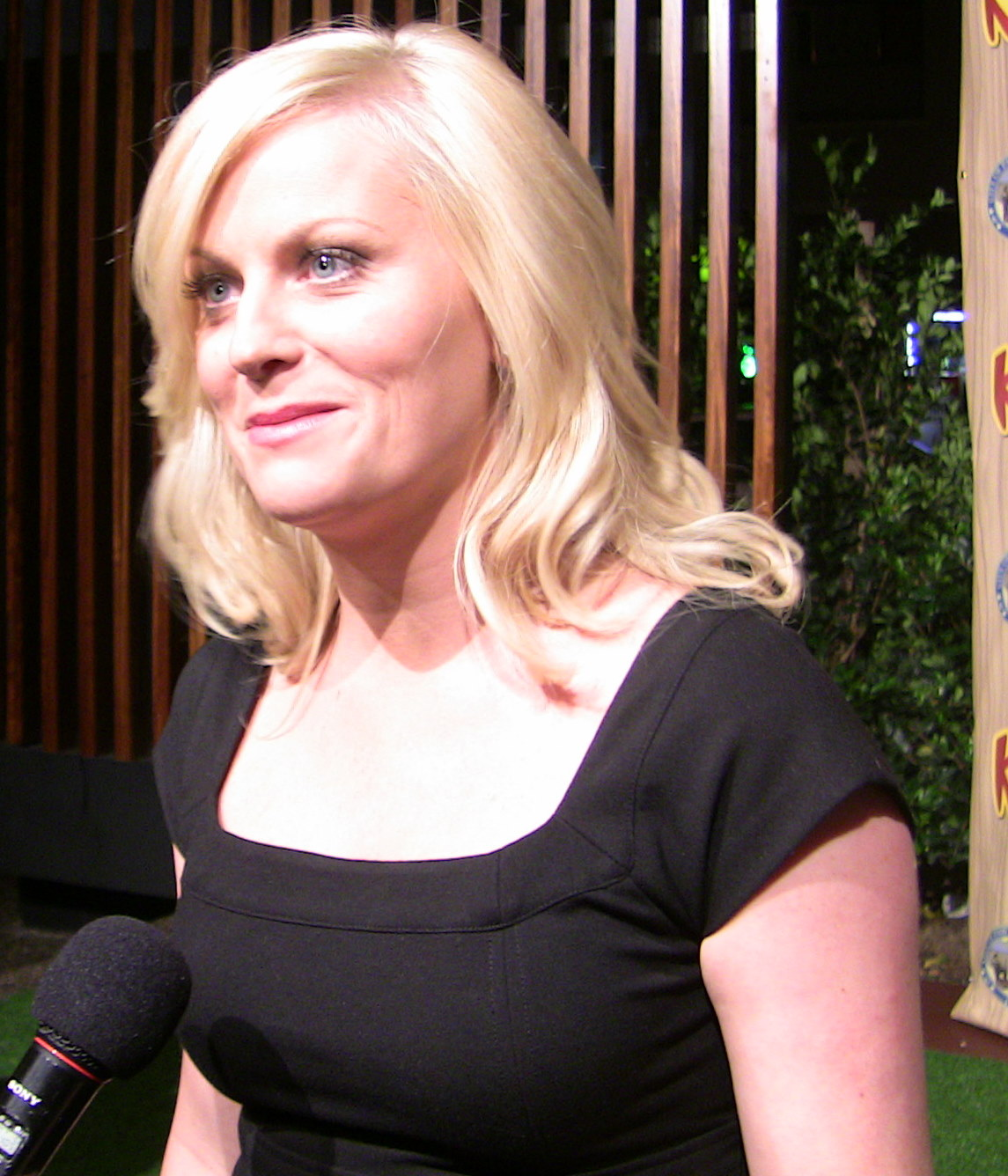 Actress Amy Poehler at the premiere party of TV series Parks and Recreation